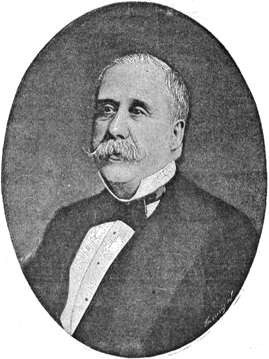 Photogravure of Cirilo Molina y Cros (1819-1904), Spanish politician who was twice mayor of Cartagena.